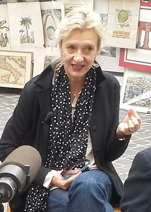 Elizabeth Strout at the Piazza Borgehse, Rome, Italy. Interview for Italian radio TG 1 (RAI 1)